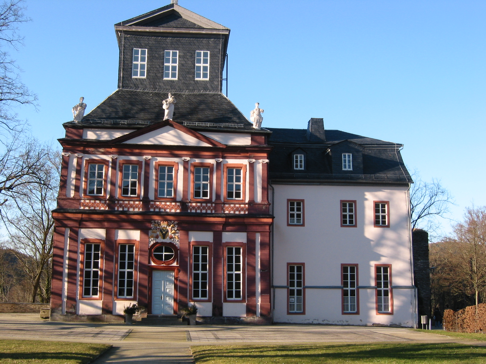 The "Kaisersaal"-building of Schwarzburg Castle in Schwarzburg, Thuringia, Germany